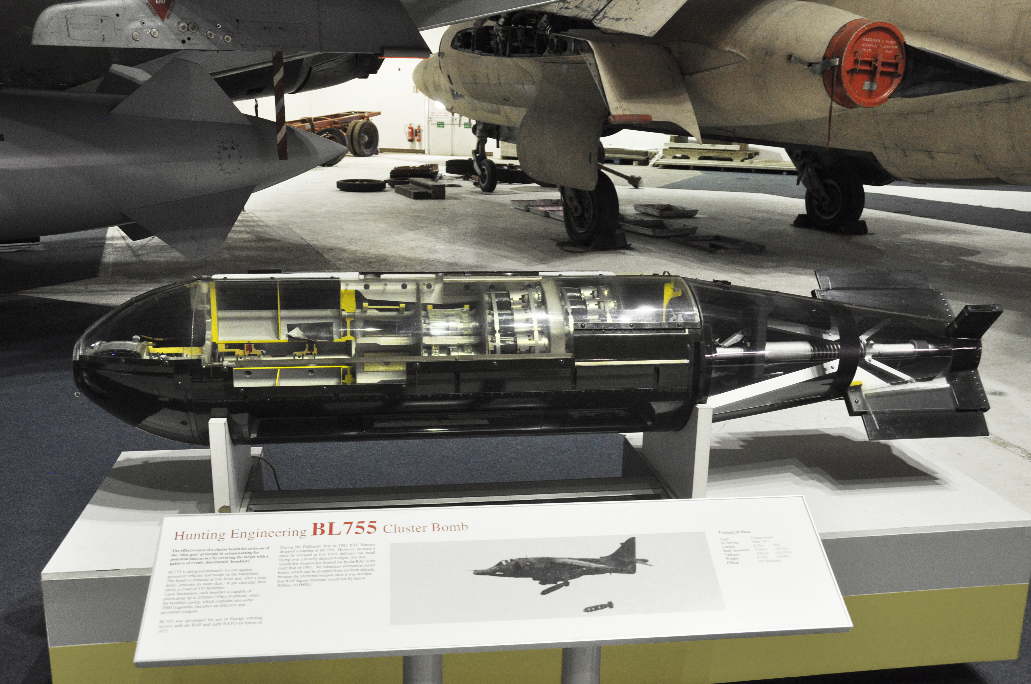 Pictures from RAF Museum, Hendon BL 755 cluster bomb showing cutaway to interior.